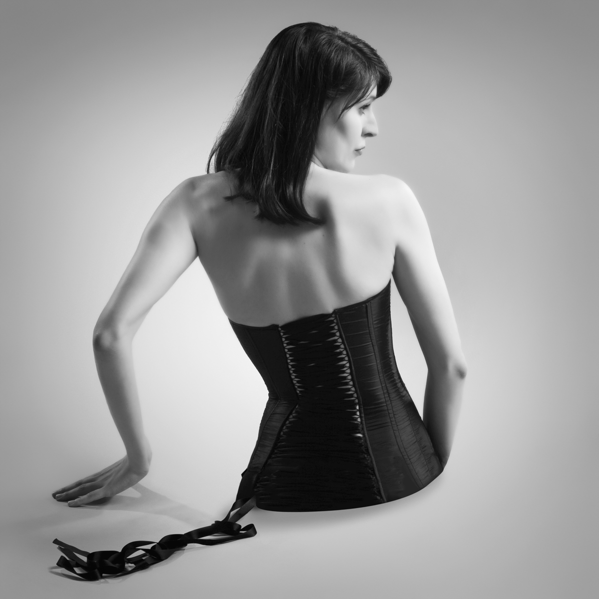 Šimon Pikous´s photography Personality rights warningAlthough this work is freely licensed or in the public domain, the person(s) shown may have rights that legally restrict certain re-uses unless those depicted consent to such uses. In these cases, a model release or other evidence of consent could protect you from infringement claims.